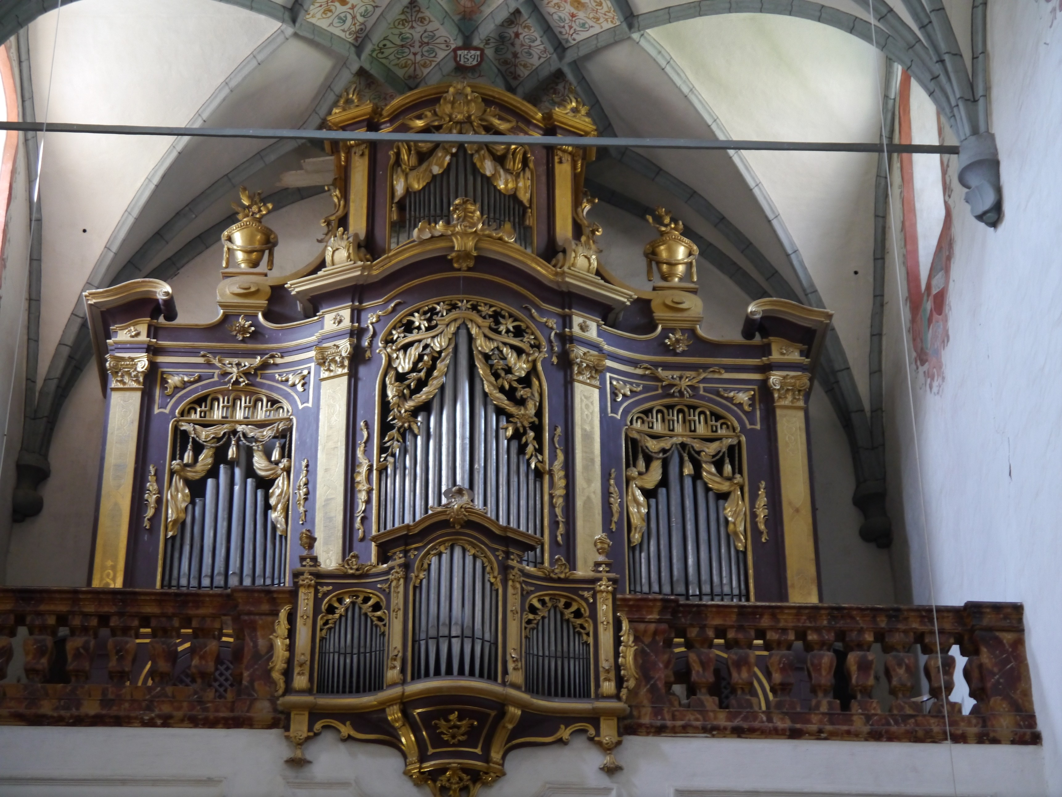 Organ of the Cathedral St. Mary Assumption, Gurk, Carinthia